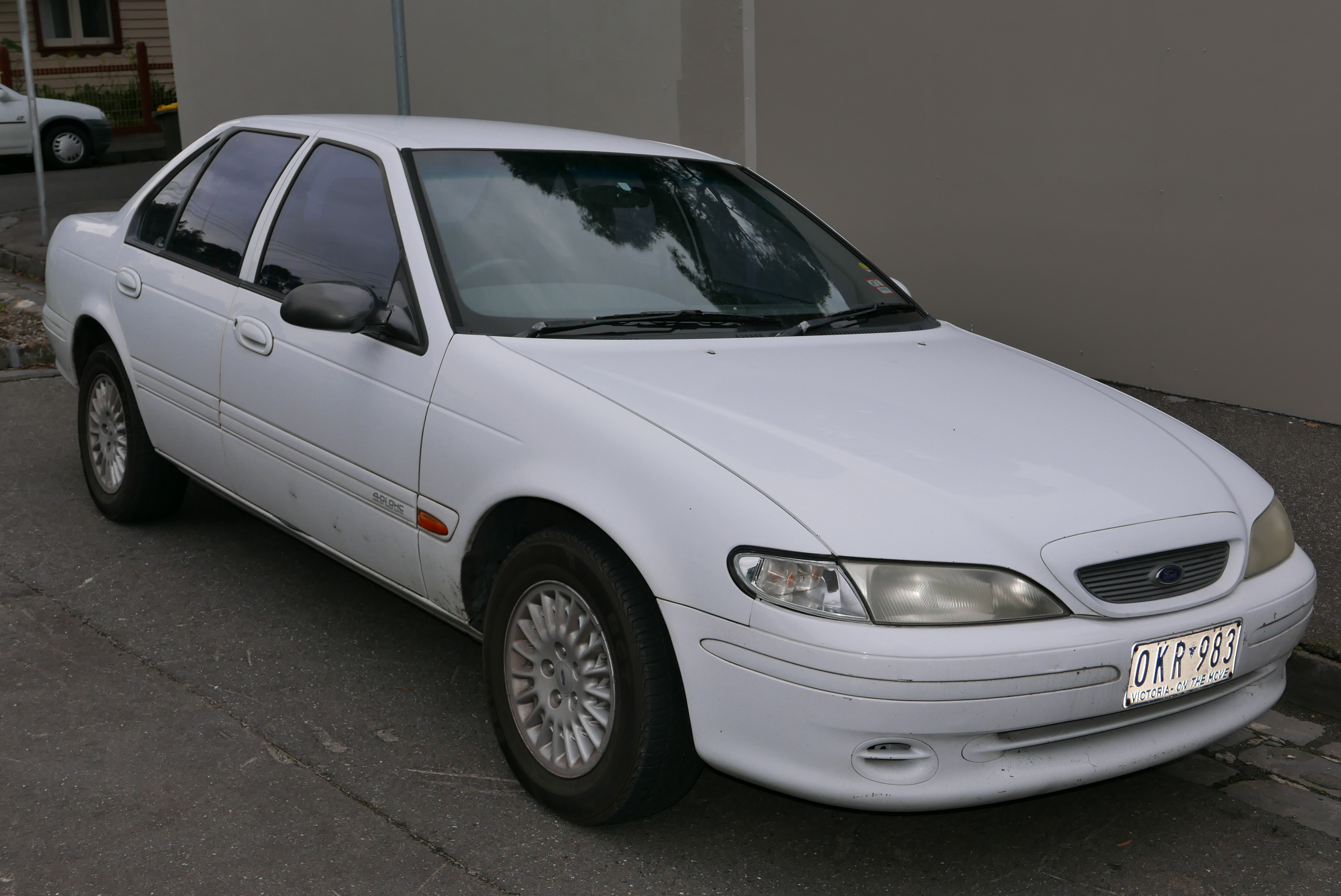 1995 Ford Fairmont (EF) sedan. Photographed in Fitzroy North, Victoria, Australia. Vehicle registration enquiry results Jurisdiction Victoria Registration OKR983 Chassis code 6FPAAAJGSWSJ57888 Engine code JGSWSJ57888 Compliance date 1995-09 Year of manufacture 1995